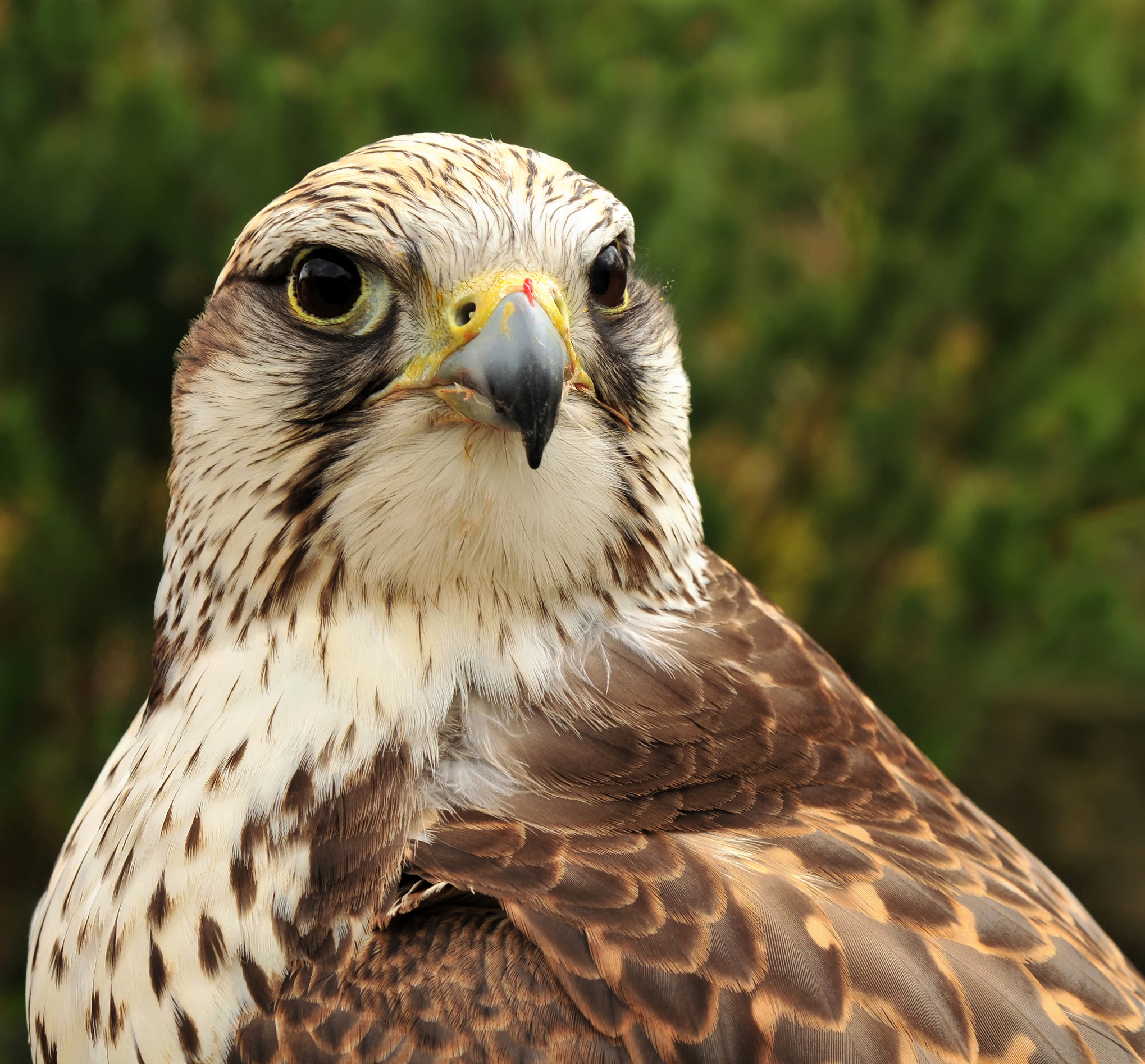 Saker Falcon from the Falkenhof in the Wisentgehege Springe game park near Springe, Hanover, Germany